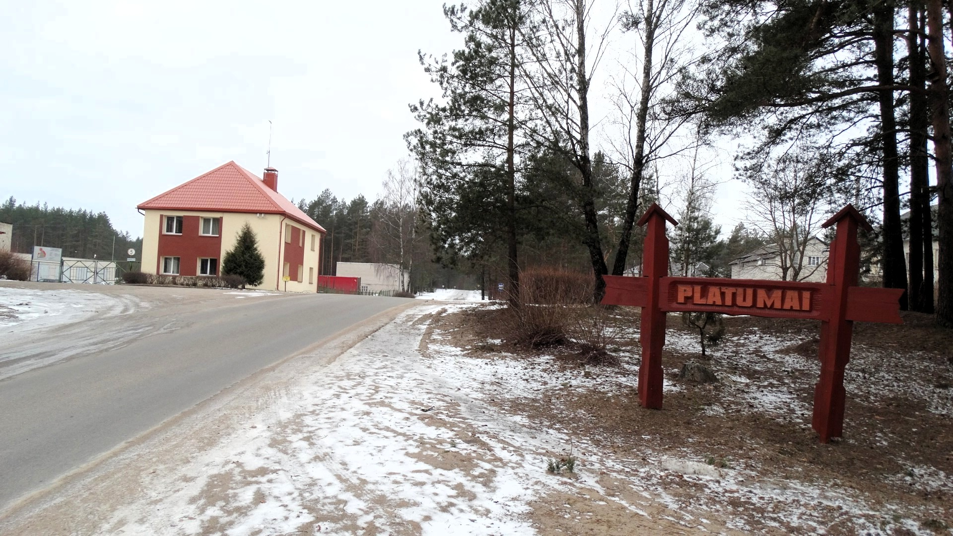 Platumai, Švenčionėliai, Lithuania